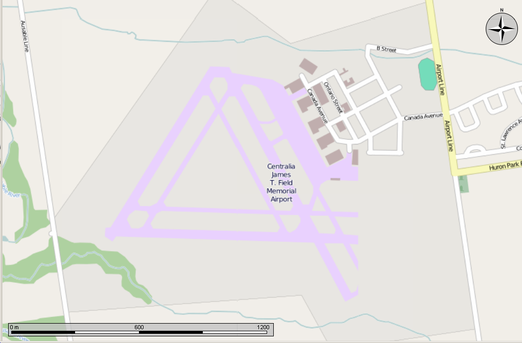 Map of the Centralia James T. Field Memorial Airport in Centralia, ON. Open Street Map of the airport from the Marble program.